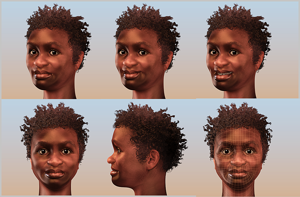 Luzia, the first brazilian woman. Luganda: Luzia, o fóssil humano mais antigo do Brasil.